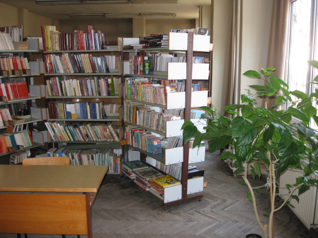 The library of the French High School in Plovdiv